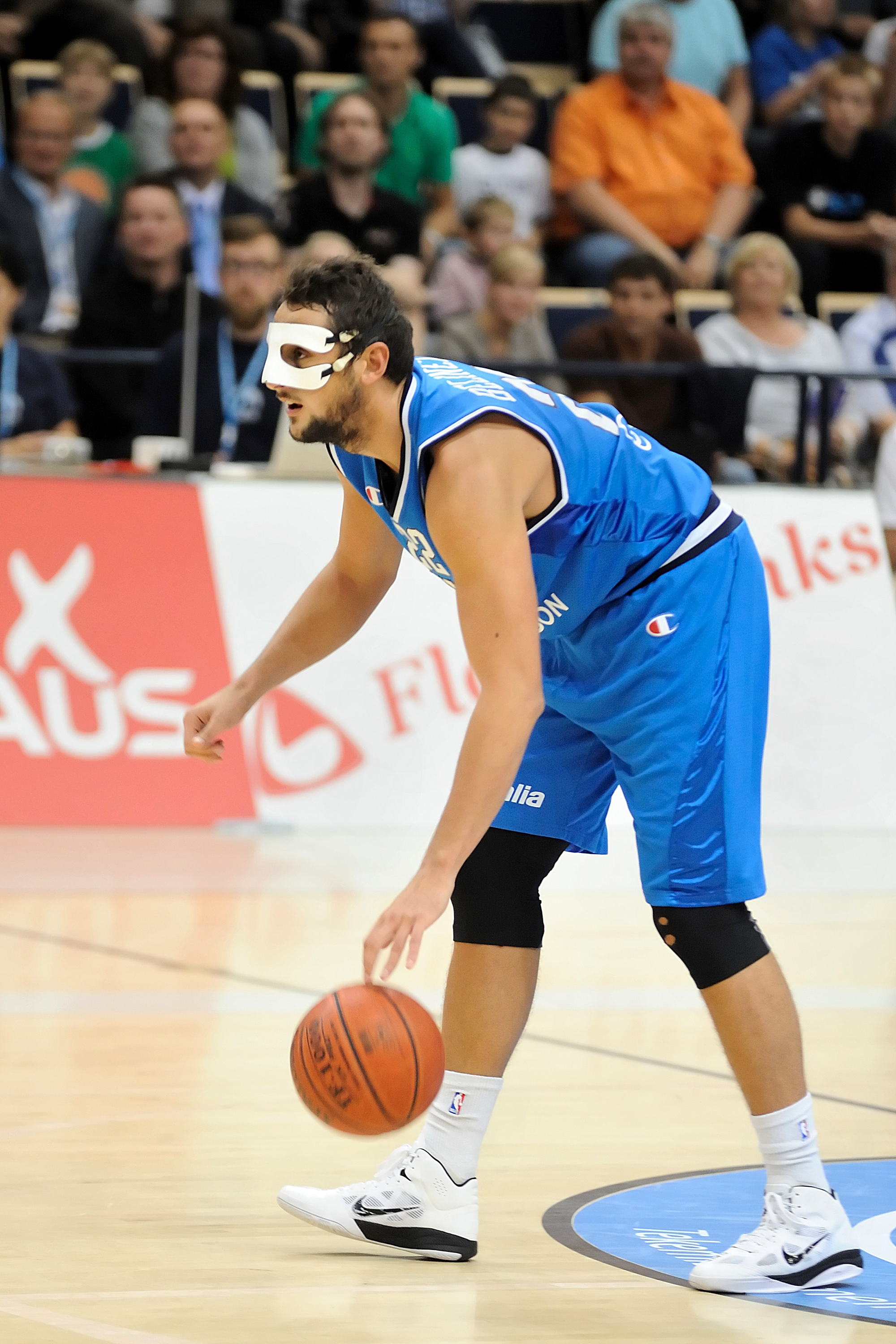 Italian basketball player Marco Belinelli in the game against Finland.